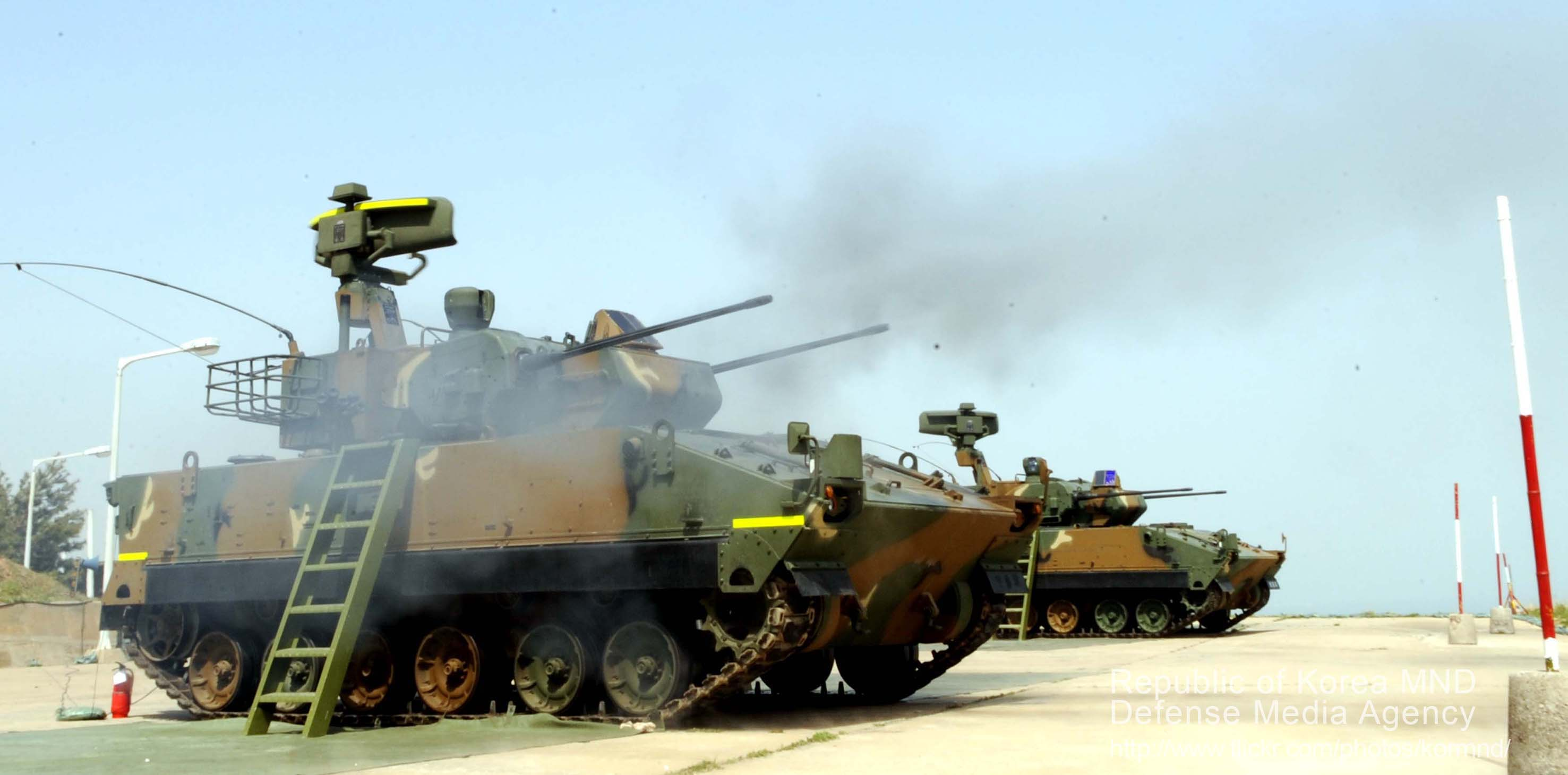 2011 국방화보 Rep. of Korea, Defense Photo Magazine